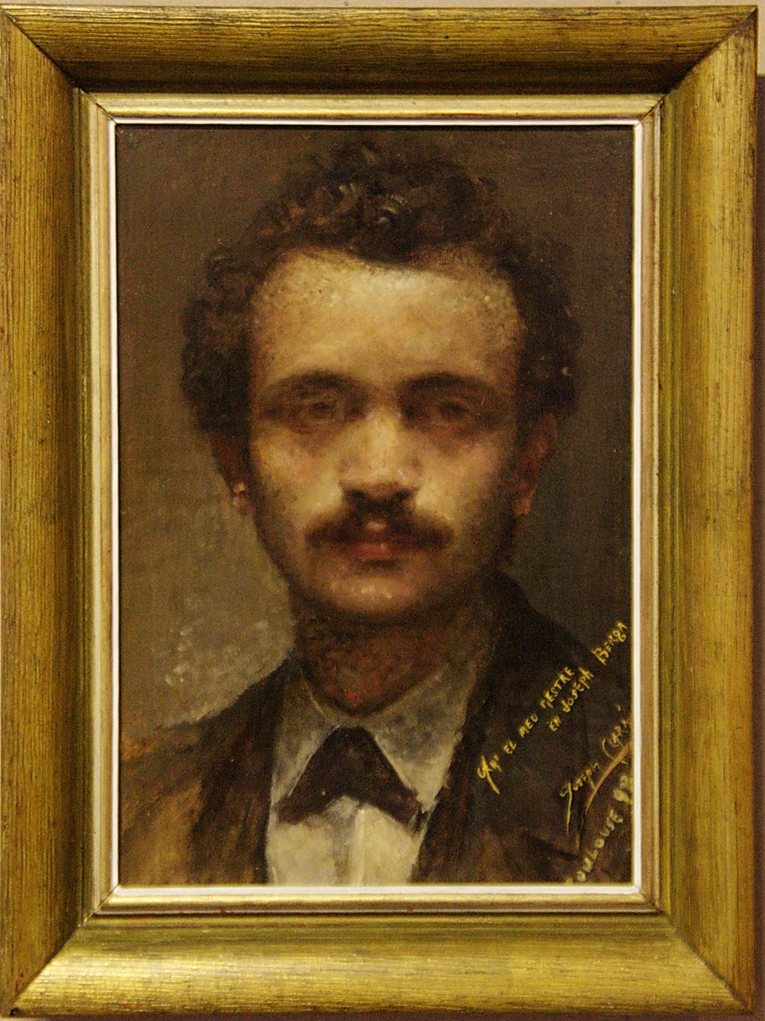 Self-portrait of the sculptor Josep Clarà